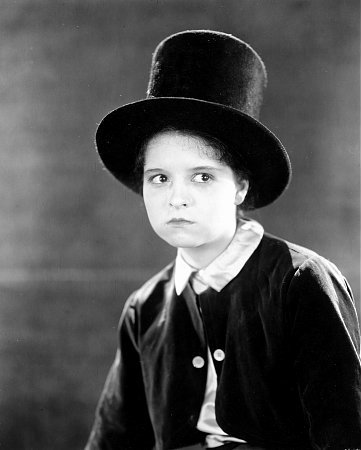 Clara Bow. Publicity photo for film Down to the Sea in Ships (1922).